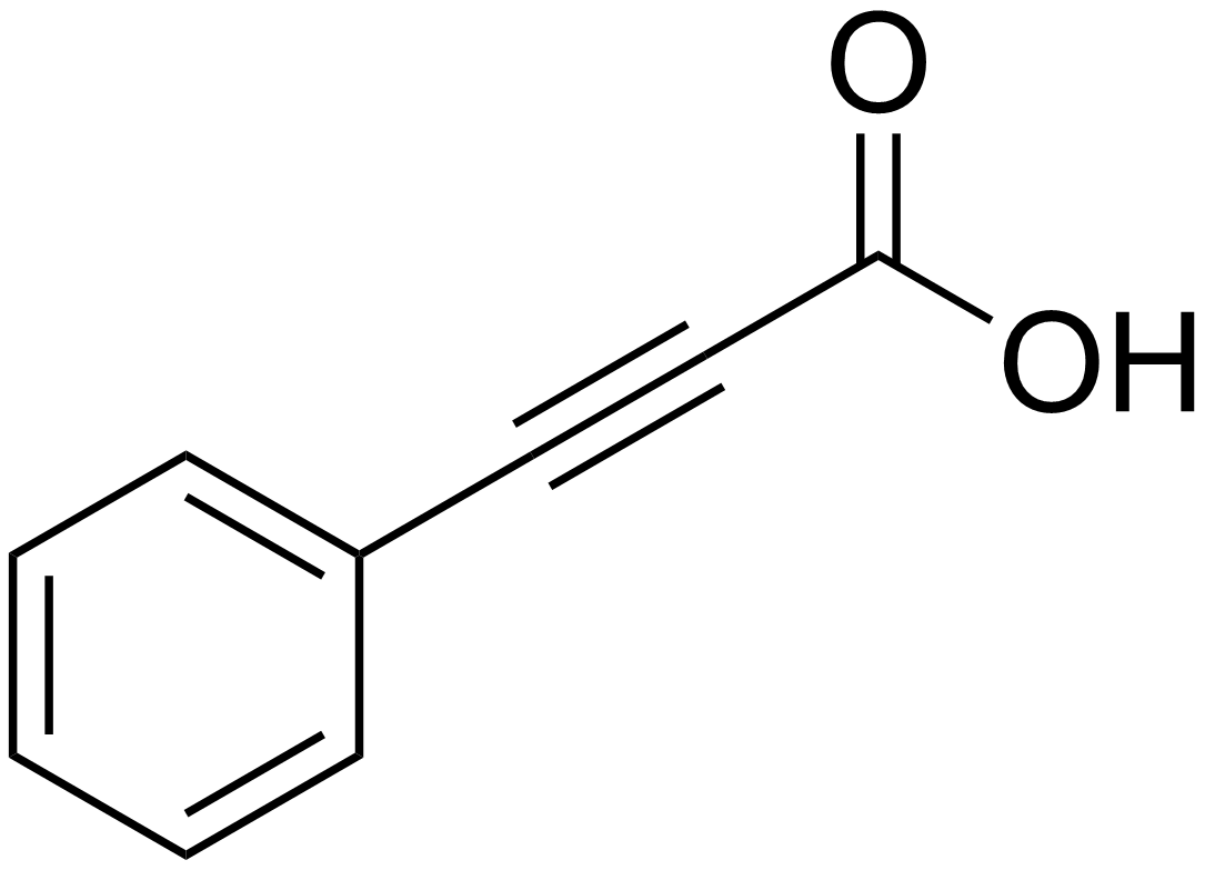 chemical structure of phenylpropiolic acid